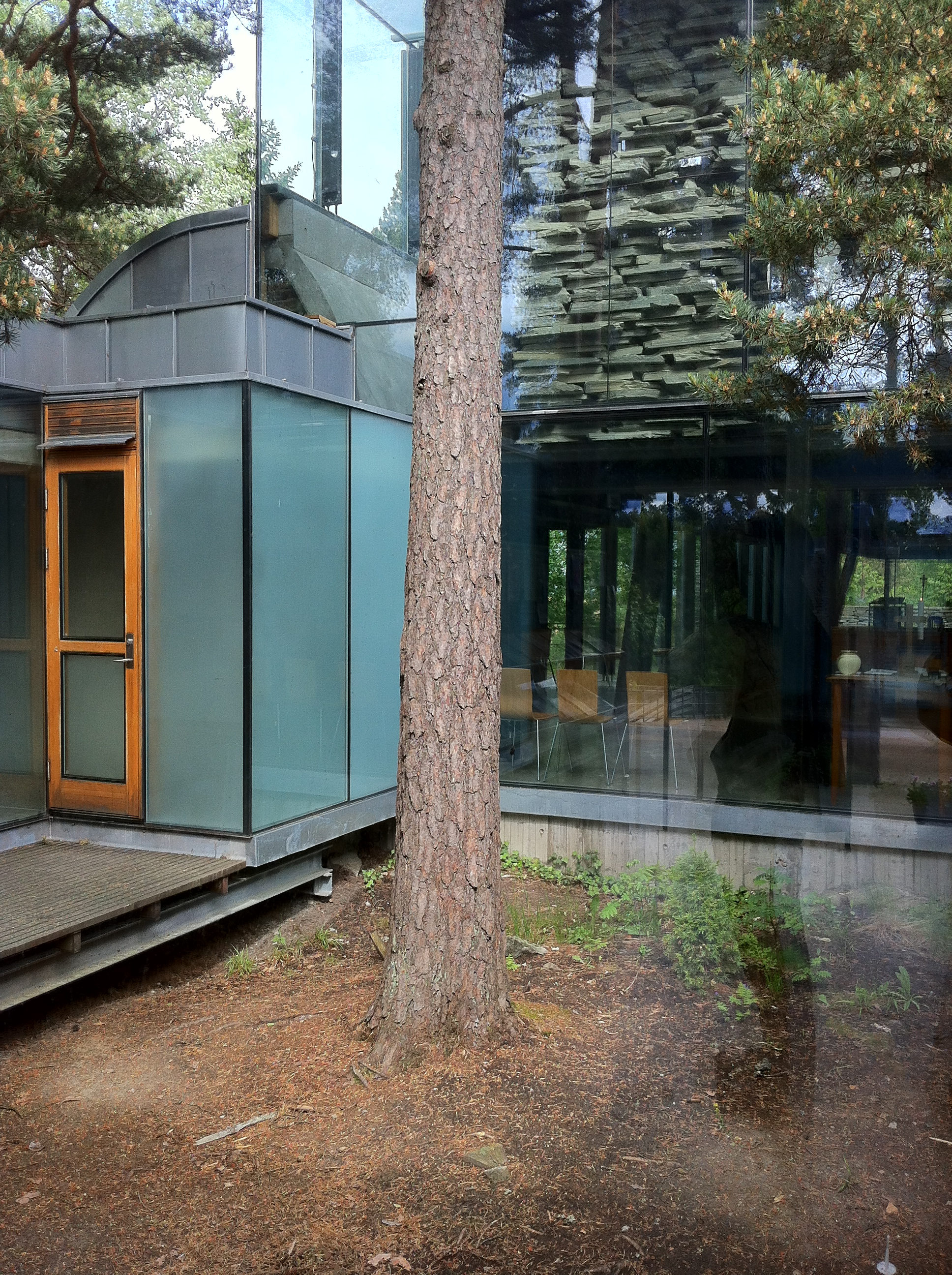 Mortensrud Church